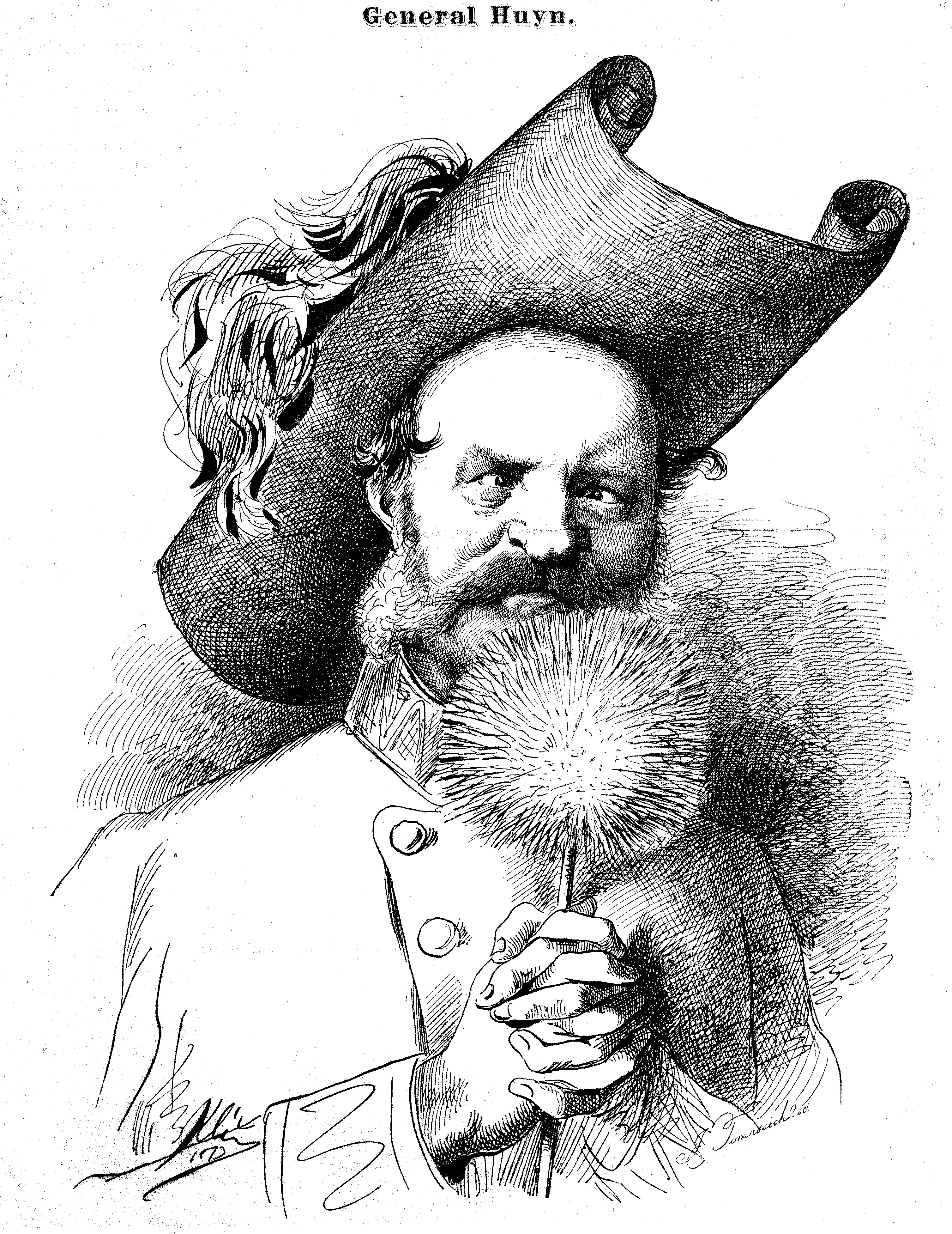 Cartoon of Johann Carl Huyn (1812-1889), Austrian general